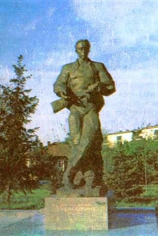 no